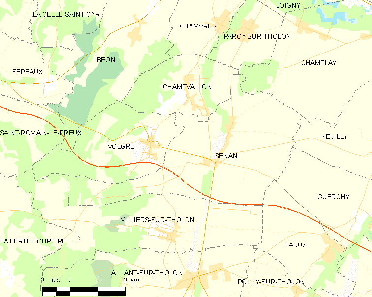 Map of French municipality Senan